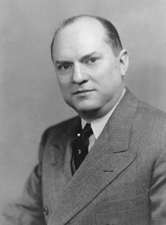 Photo of United States senator Samuel D. Jackson (D-IN).